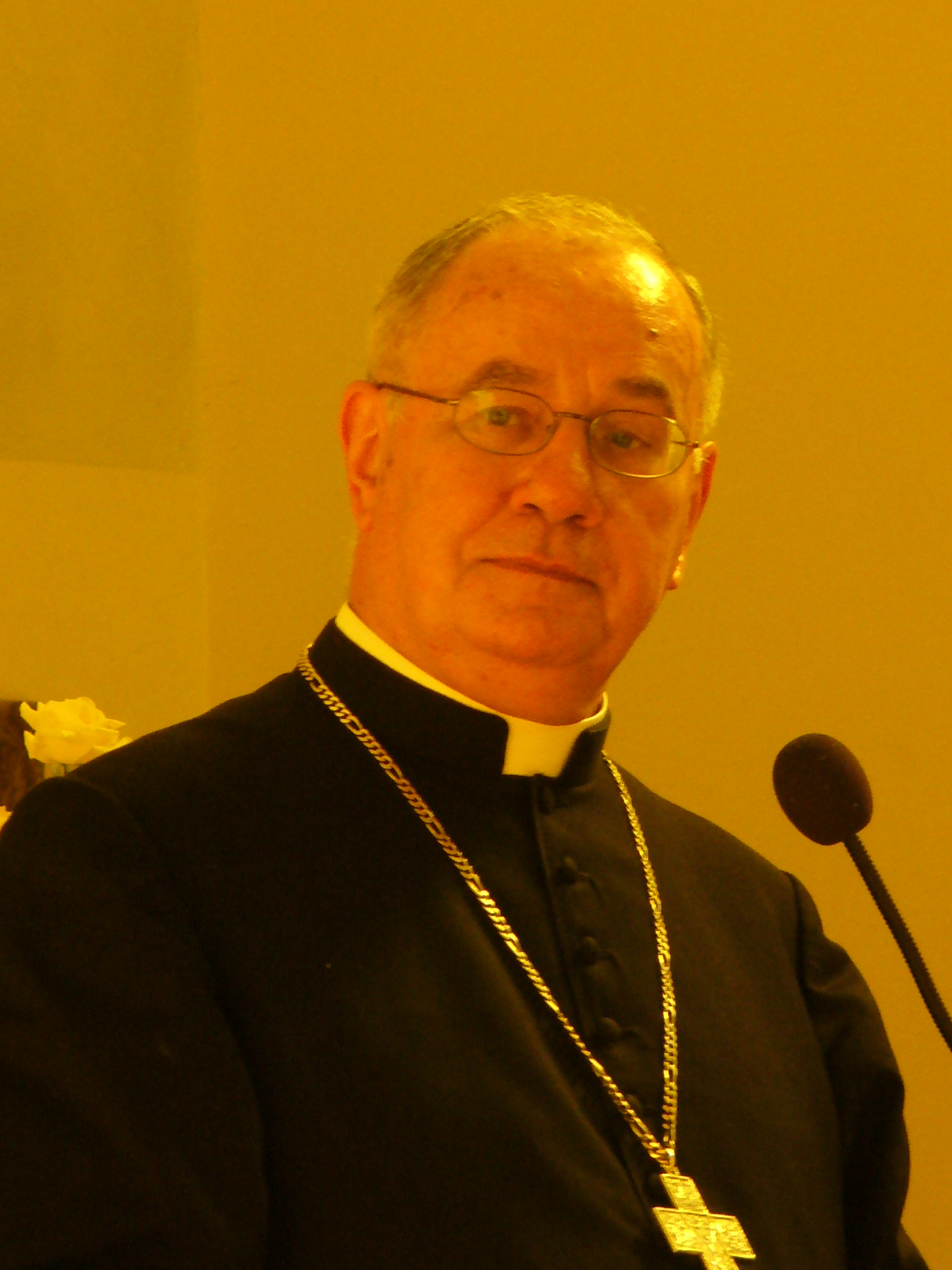 catholic bishop Claudio Stagni in 2009, during his pastoral visit to St. Mary Magdalene parish, diocese of Faenza-Modigliana